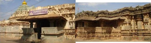 Trikuteshwara temple complex Source and Author : manjunath Doddamani, Gajendragad / Hubli, Karnataka(North), India.